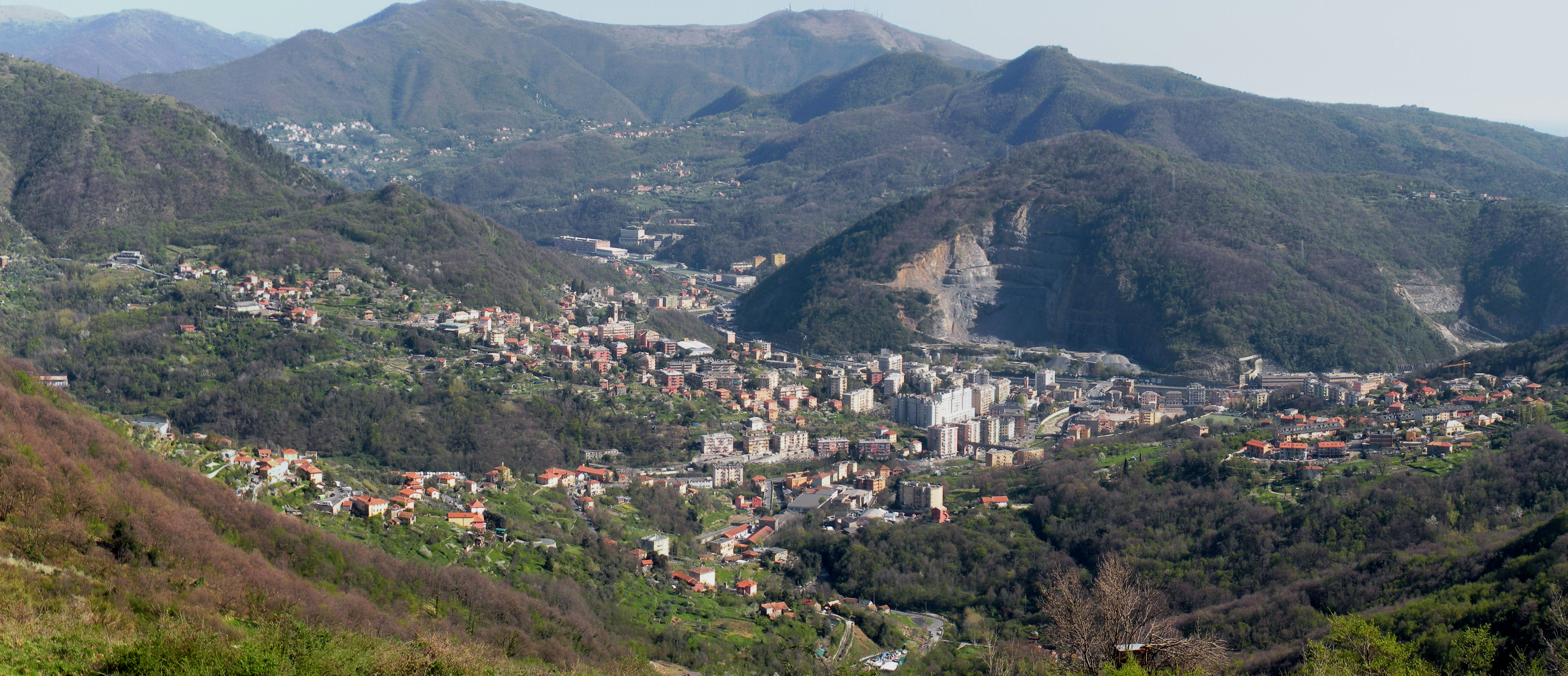 Genoa (Italy), view of the quarter of Molassana